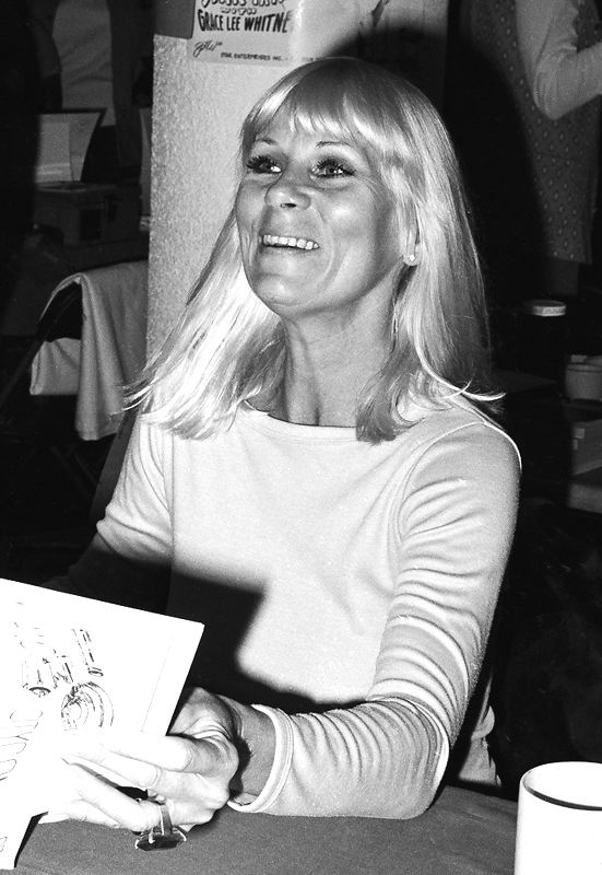 Grace Lee Whitney appearing at a science fiction convention in Houston, Texas, United States.